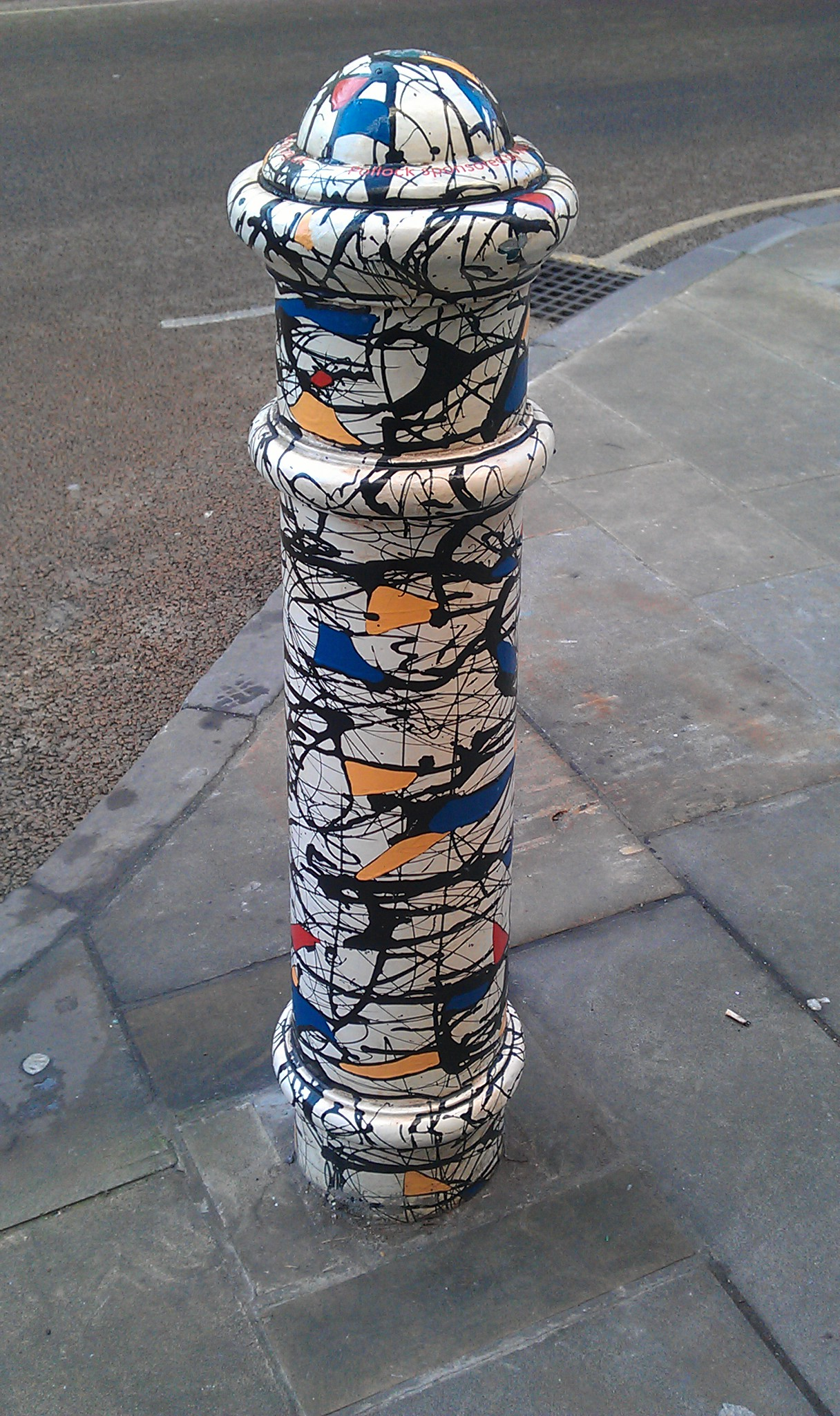 A bollard in Winchester, England, painted in the style of Summertime by Jackson Pollock. This is one of a series, on the corner of Great Minster Street and The Square, painted by